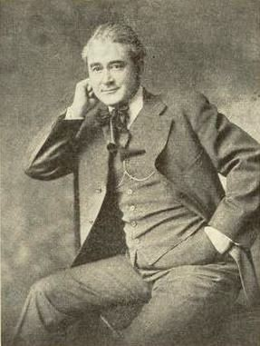 American actor and film director David M. Hartford (1873 – 1932) on page 47 of the April 24, 1921 Film Daily.